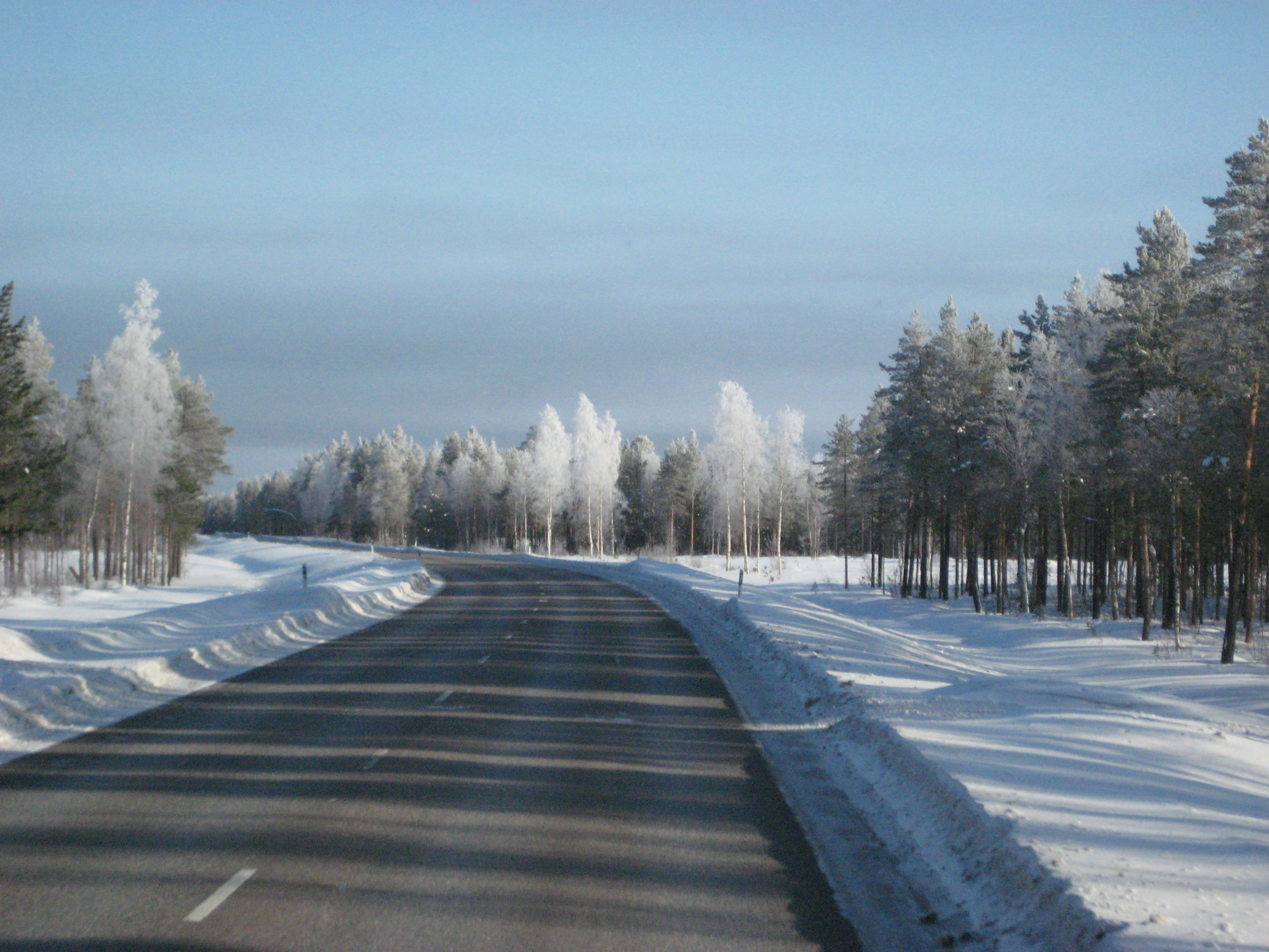 National road 20 in Pudasjärvi, Finland. The picture has been taken towards Kuusamo about 3.5 kilometres before Niva village.